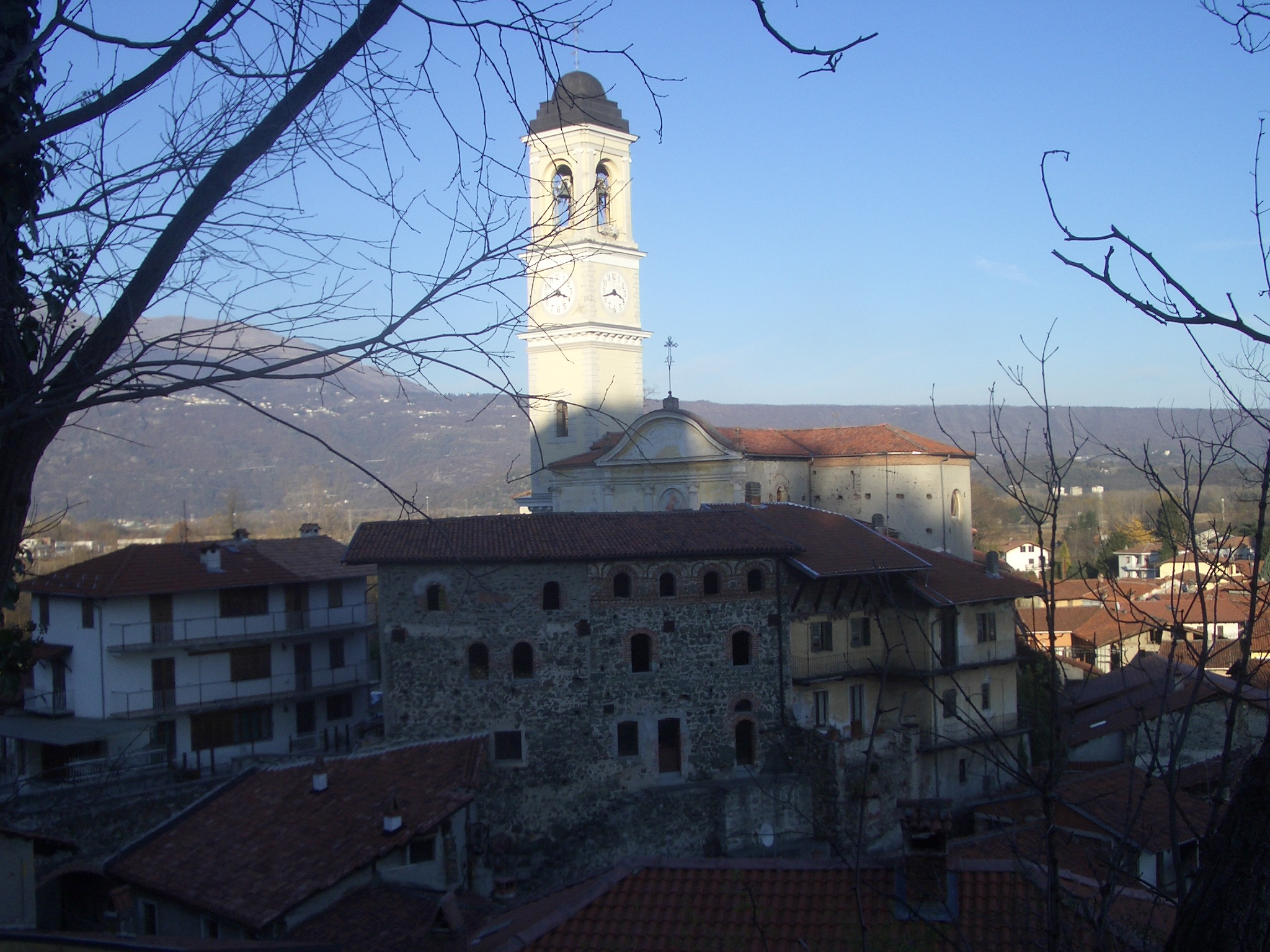 Landscape with the parish church deicated to San Dalmazzo, Fiorano Canavese, Turin, Italy